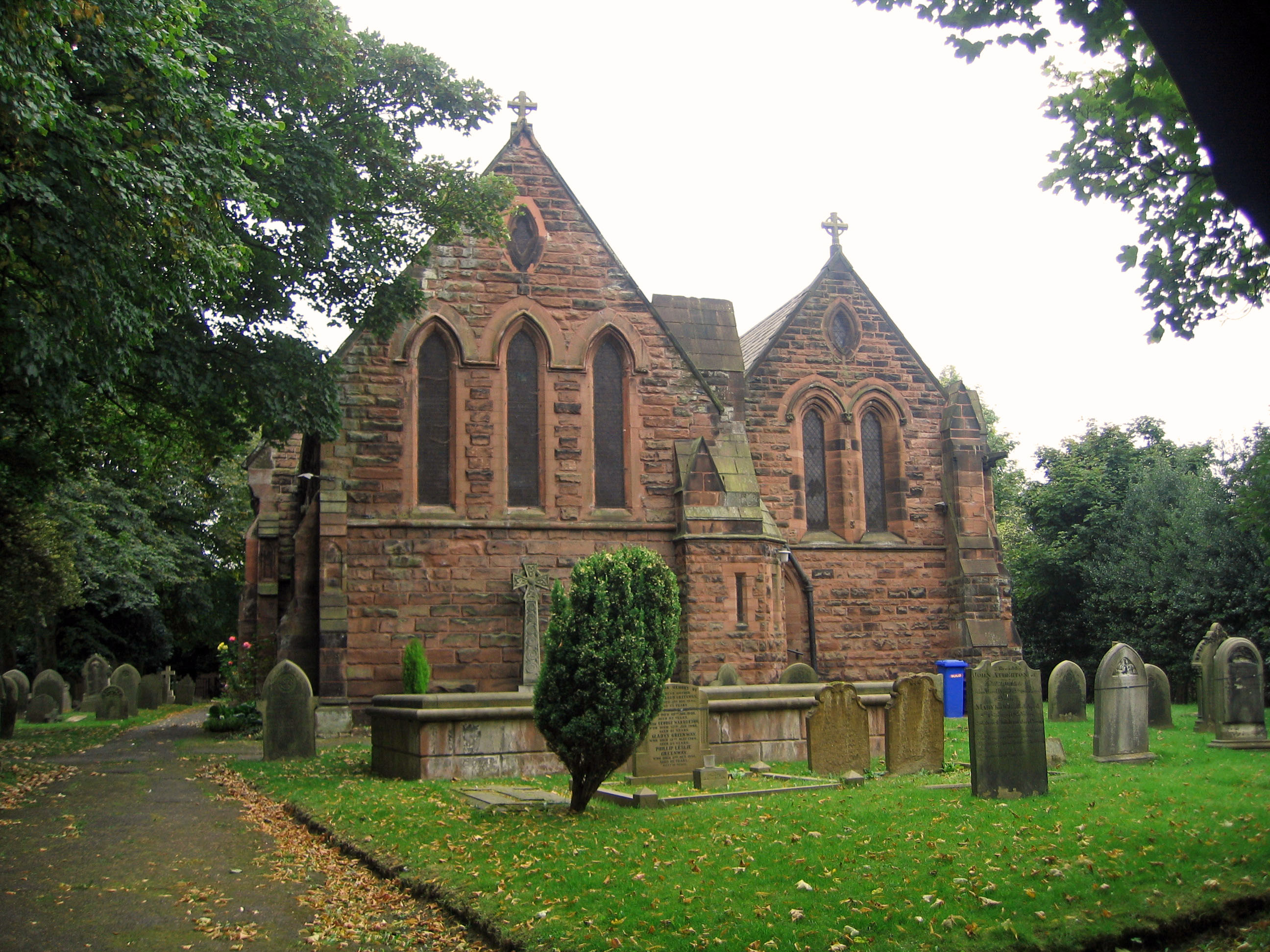 All Saints' parish church, Thelwall, Cheshire, seen from the east